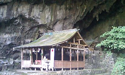 Kumanoza jinja. 球磨村にある熊野座神社, Kuma.